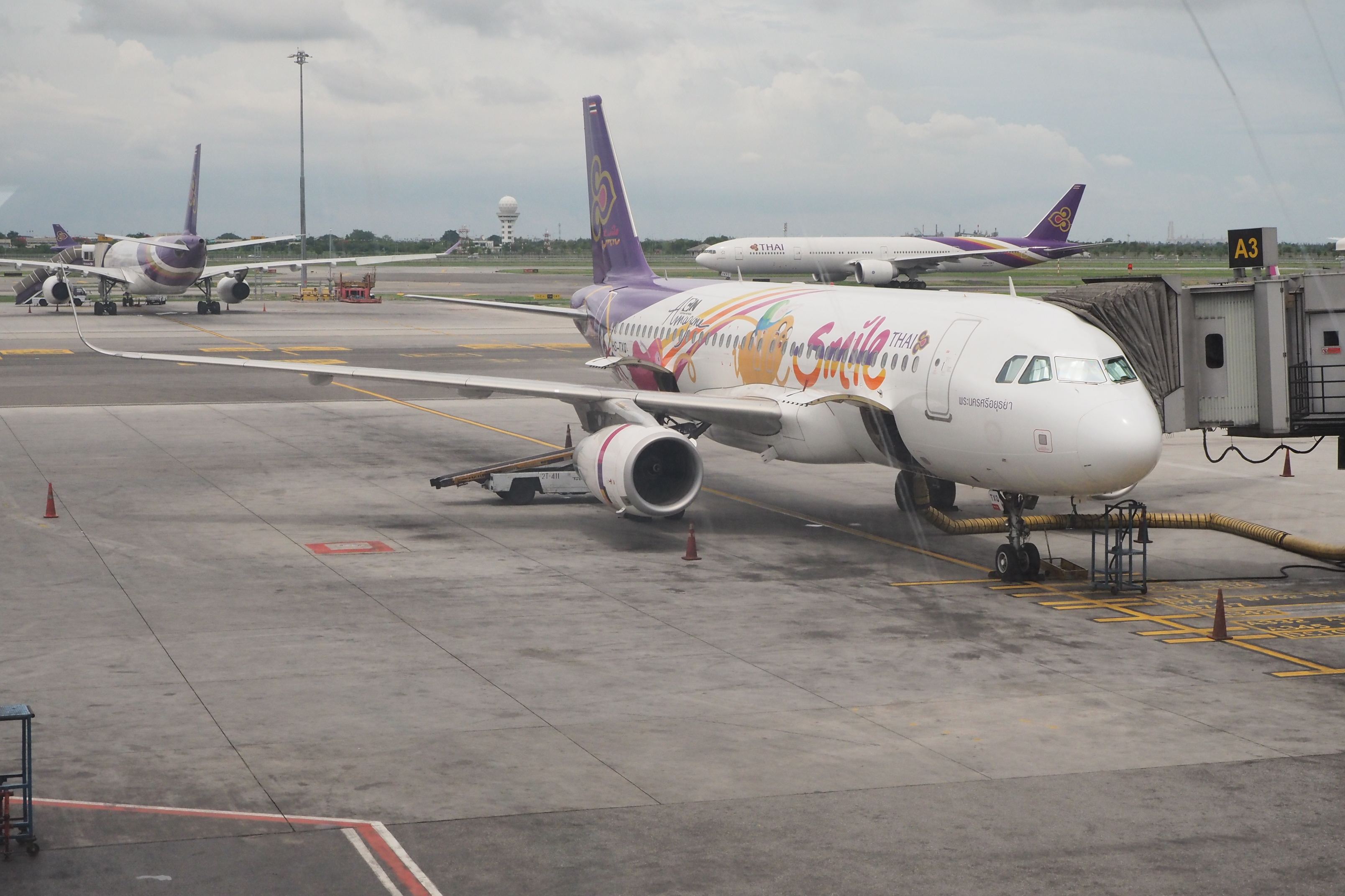 Thai Smile HS-TXQ park at Gate A3 Suvarnabhumi Airport